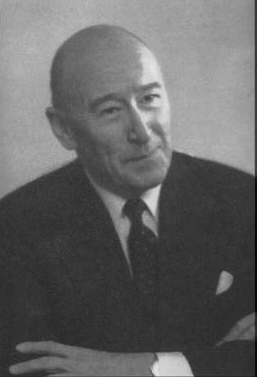 Herbert Hunger (December 9, 1914, Vienna - July 9, 2000, Vienna);Provided by Dorothea Hunger, private.